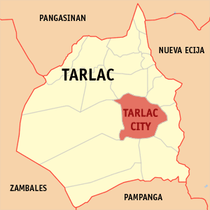 Map of Tarlac showing the location of Tarlac City